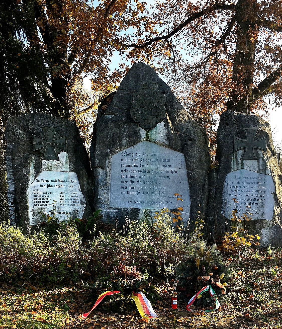 War memorial in Carinthia, Niederdorf near Klagenfurt, Austria, European Union